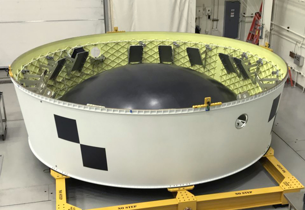 The Orion stage adapter flight hardware for NASA's Space Launch System has been outfitted and is ready to travel to the agency's Kennedy Space Center in Florida, via NASA's Super Guppy.